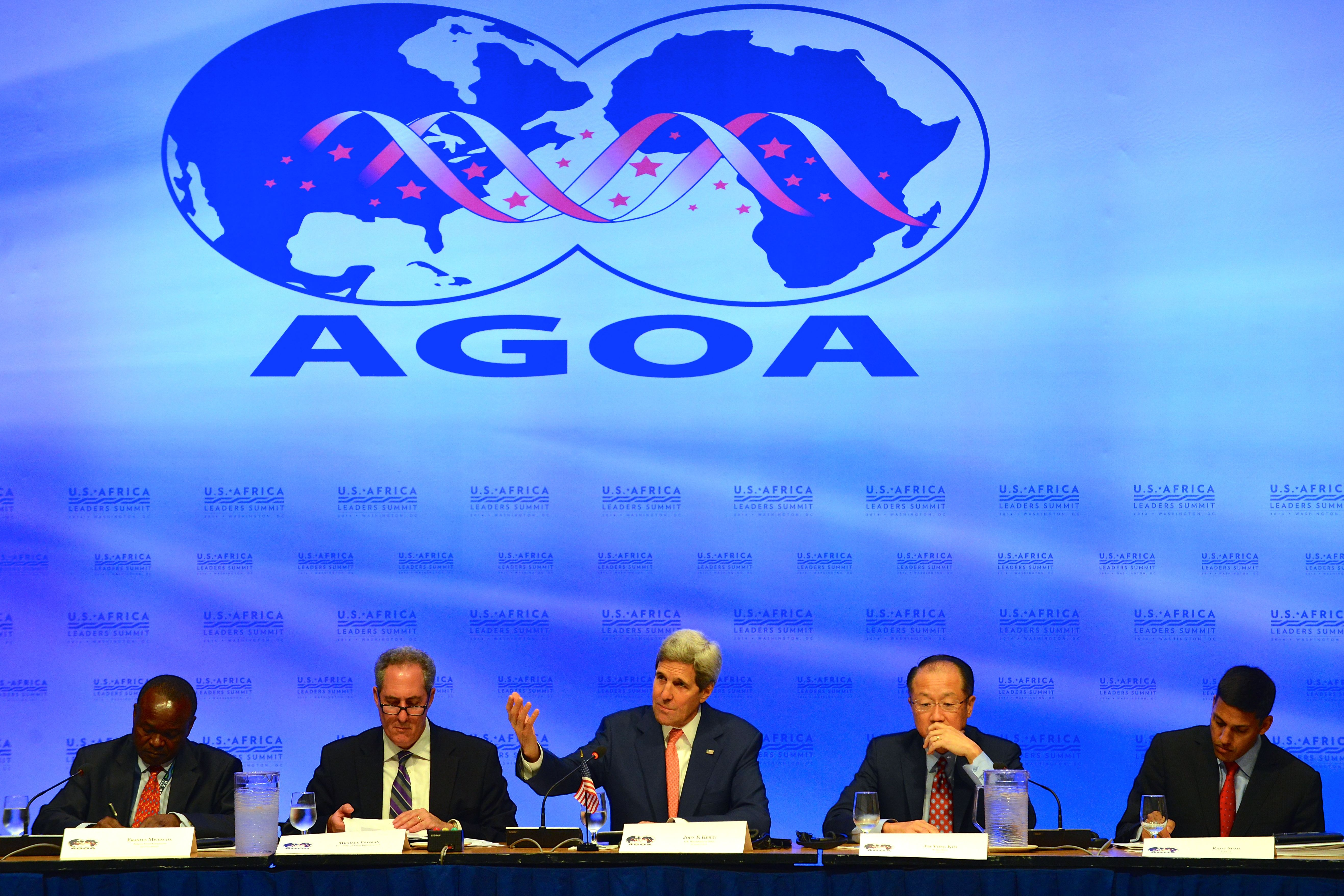 U.S. Secretary of State John Kerry delivers opening remarks at the African Growth and Opportunity Act (AGOA) Ministerial at the World Bank in Washington, D.C., on August 4, 2014. Also pictured, left to right, are U.S. Trade Representative Michael Froman, World Bank President Jim Yong Kim, and U.S. Agency for International Development Administrator Rajiv Shah, right. The event is part of the three-day U.S.-Africa Leaders Summit, the largest event any U.S. President has held with African heads of state and government.